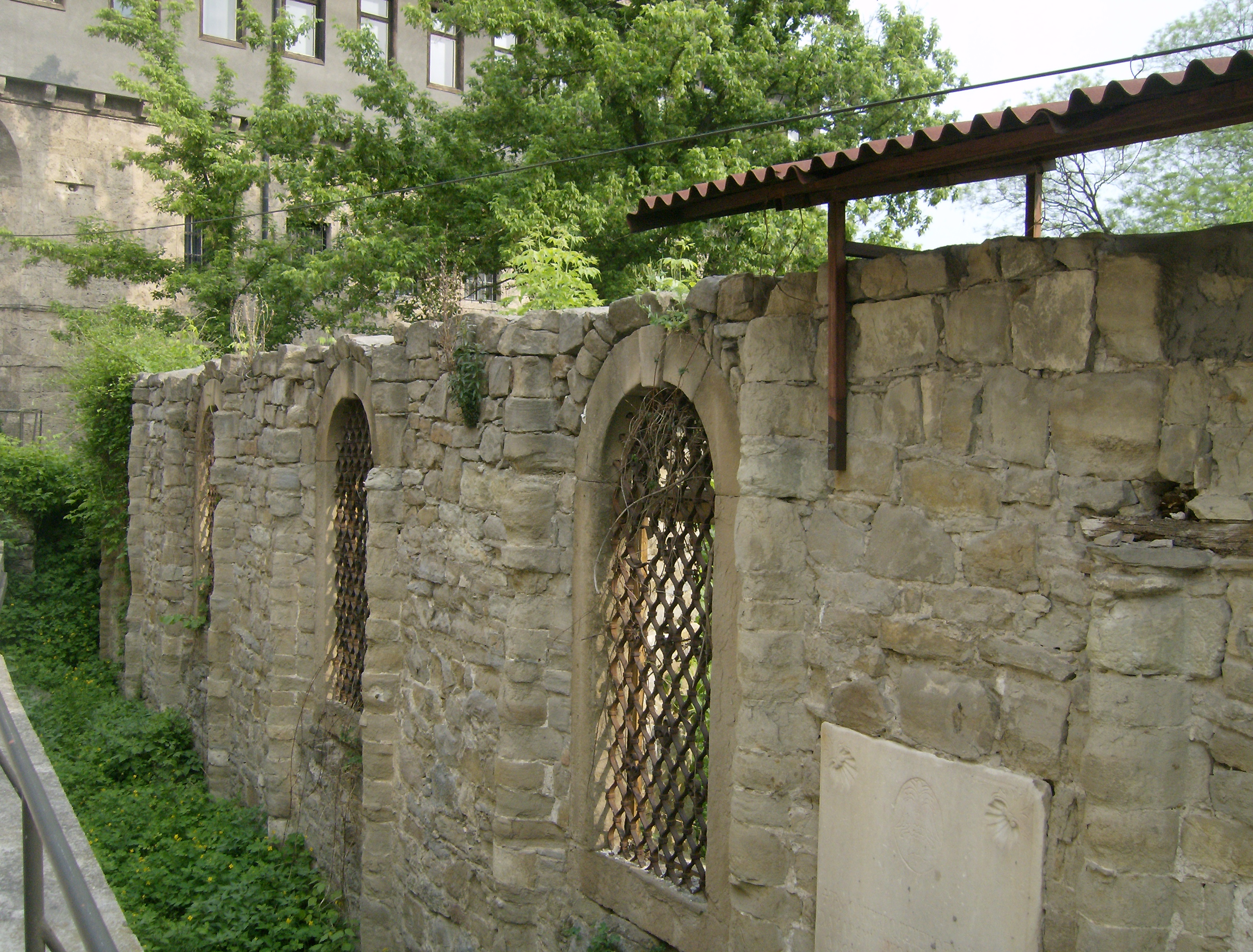 Church of Saint Spas, Veliko Tarnovo